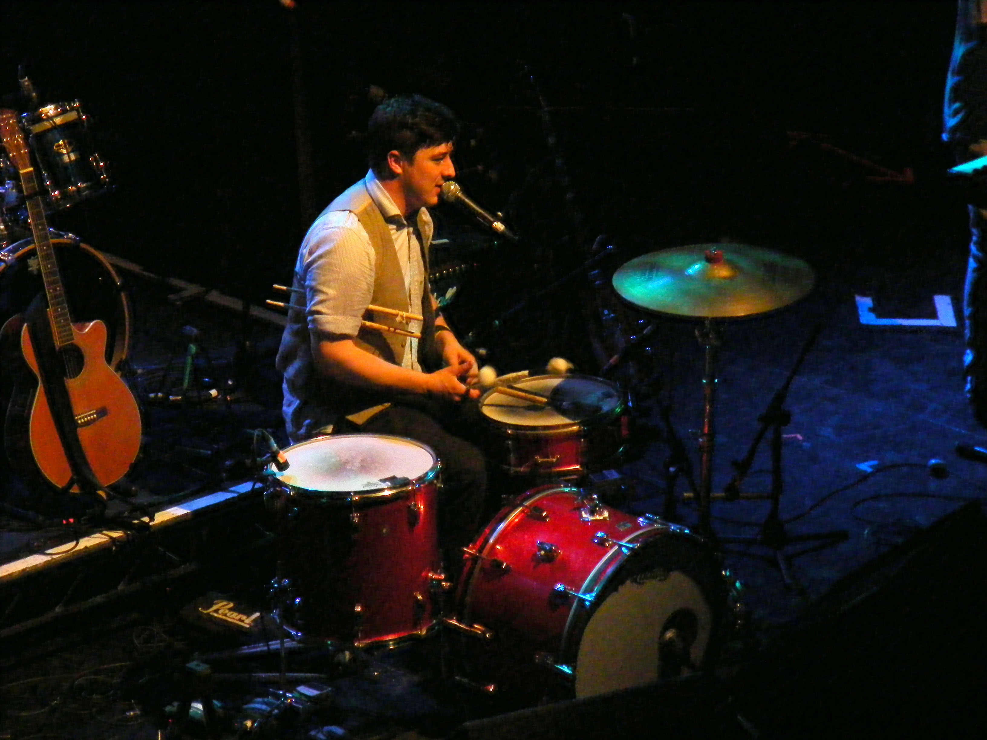 Dot To Dot Fesival Various venues, Bristol 23 May 2009